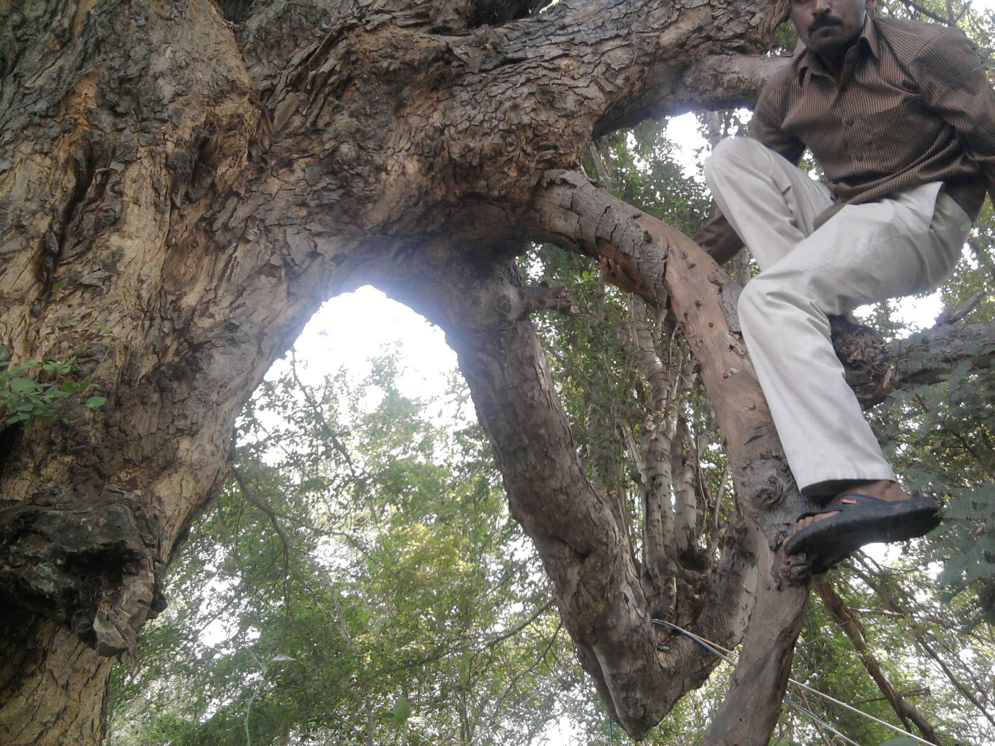 Tree climbing